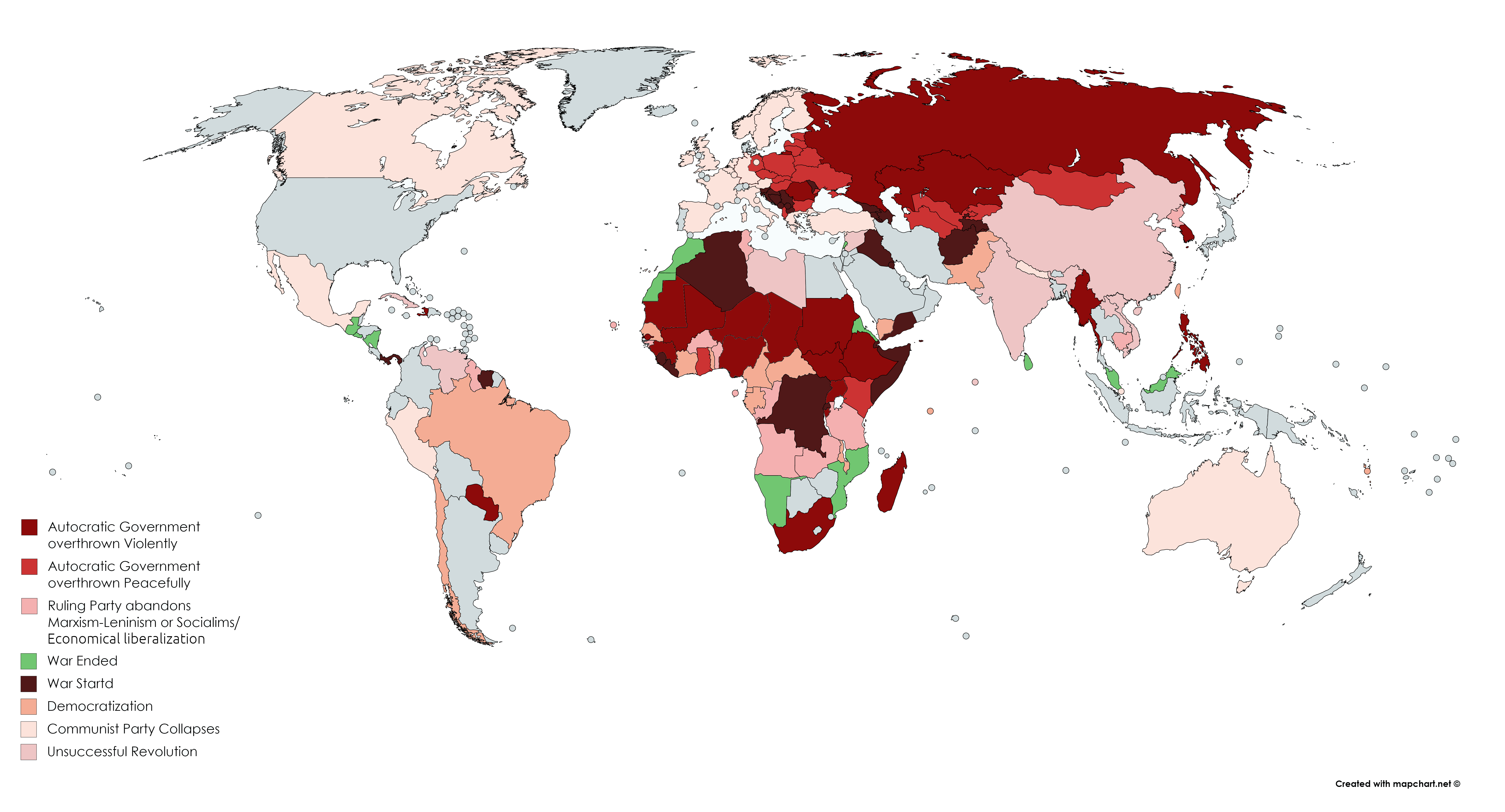 The global effect of 1989-1991 Revolutions.